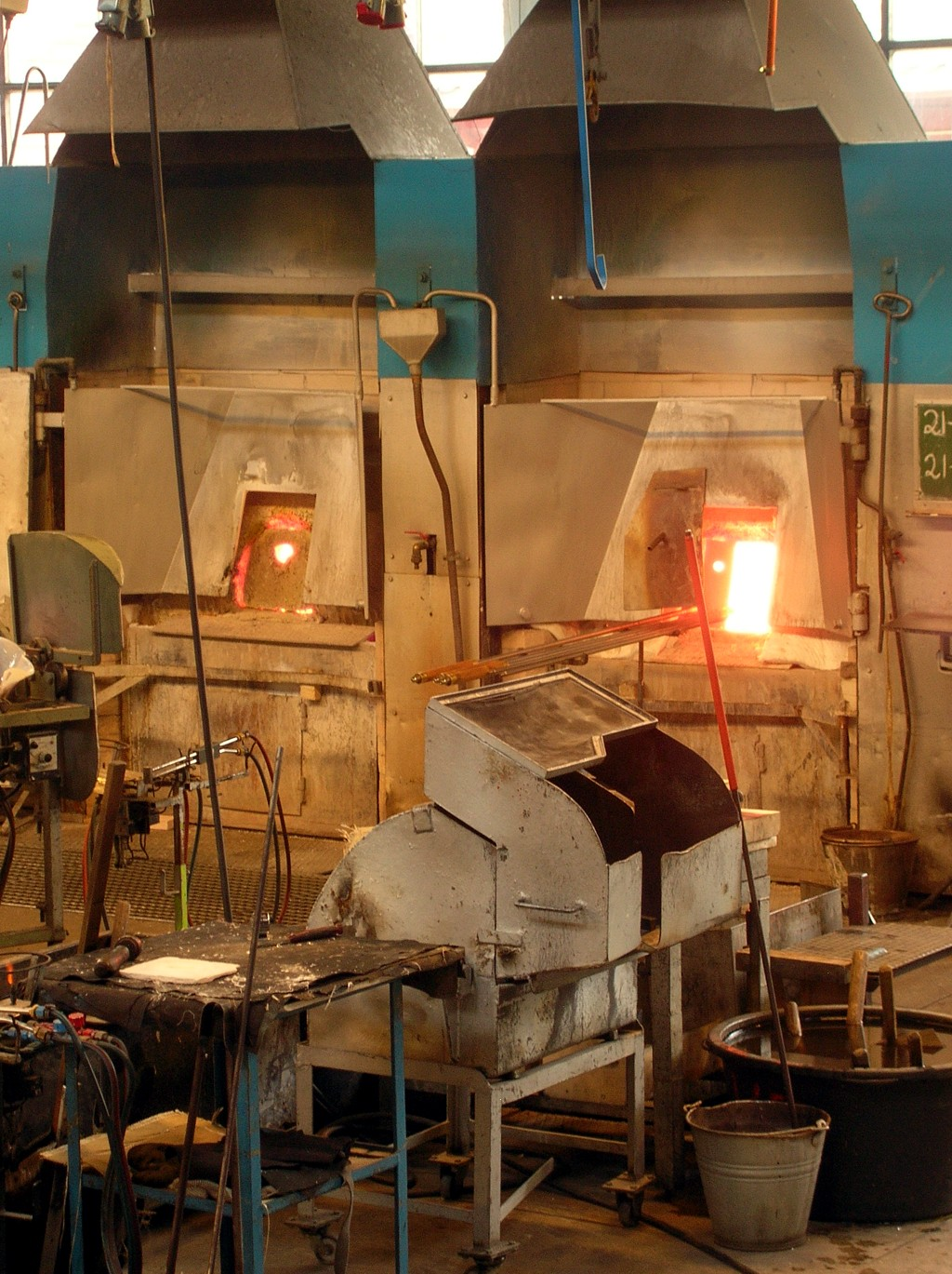 Glasswork in Hadeland (Norway)